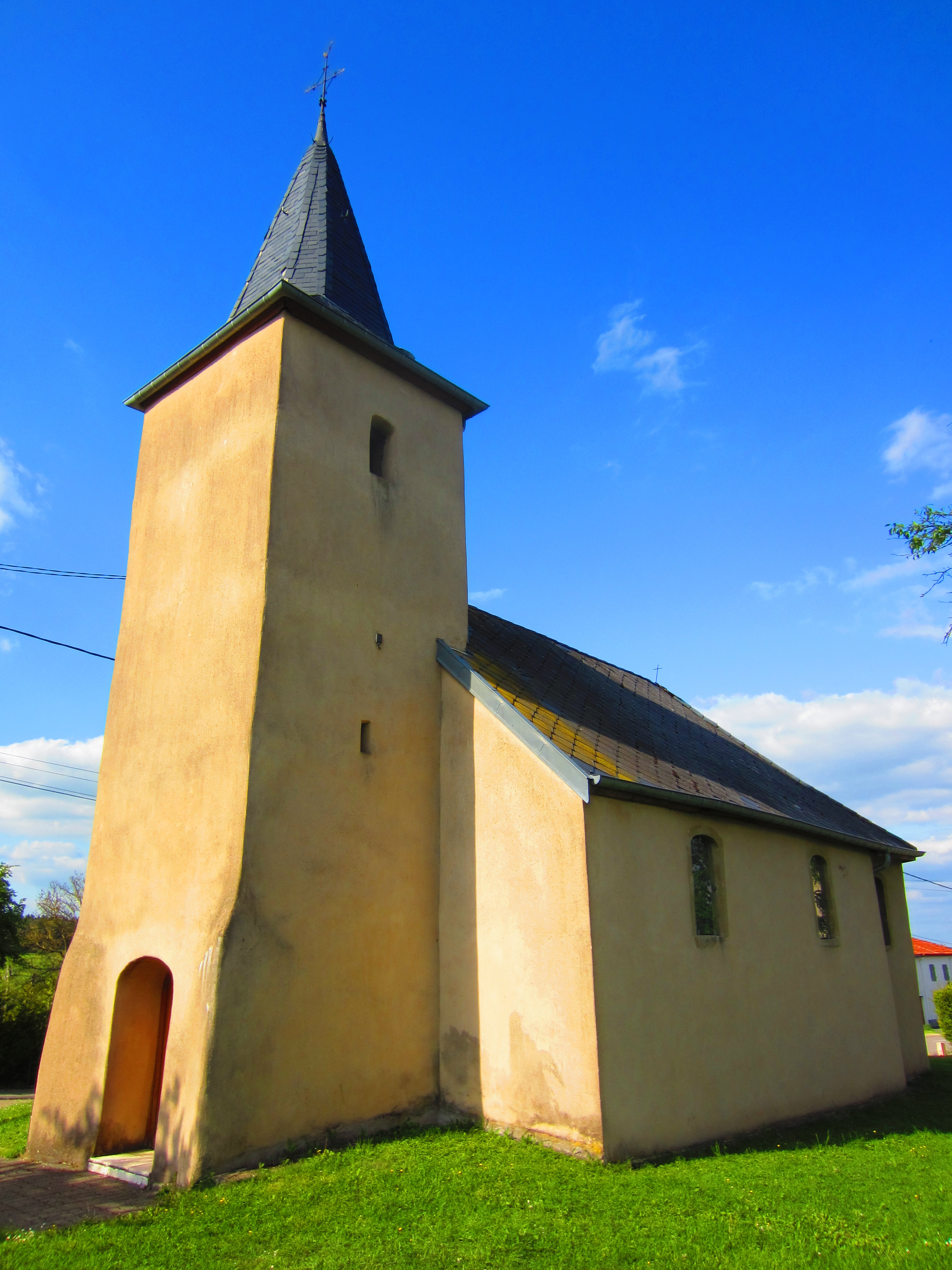 St Francois Lacroix chapelle